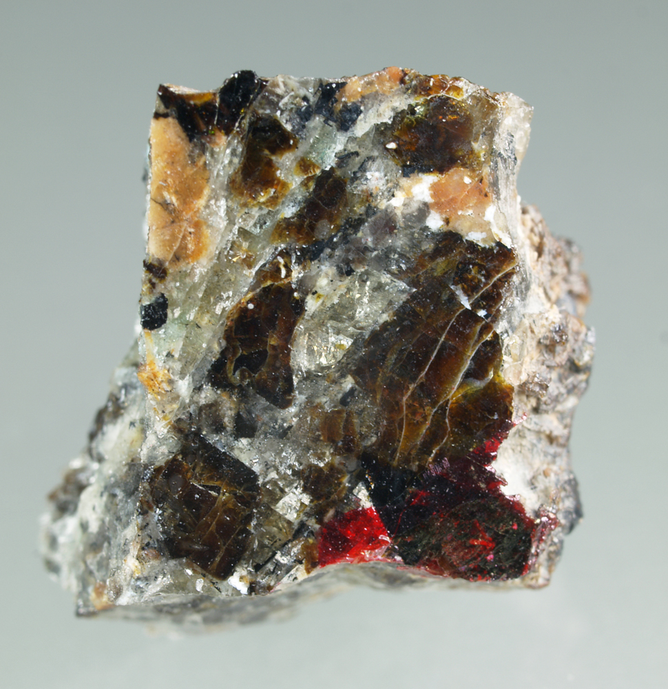 Locality: Gurim Anticline, Hatrurim Formation, Negev Desert, Israel Size: 1.4 × 1.1 × 0.3 cm Description: Gurimite is a very rare and chemically simple species. It is a barium vanadate, but in this sample we can observe the presence of P, very common on V minerals. This sample is from the type locality, the Gurim Anticline, in Israel. Aproved in 2013 and published in 2017. Specimen analyzed by Dr. M. Murashko. SEM image